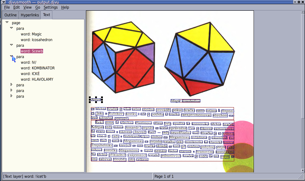 Screenshot application djvusmooth 0.2.7 for wikibooks about DjVu